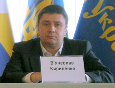 Vyacheslav Kyrylenko, Ukrainian politician, member of the Ukrainian Verkhovna Rada, former Minister of Labour